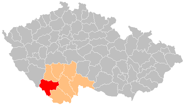 District of Prachatice